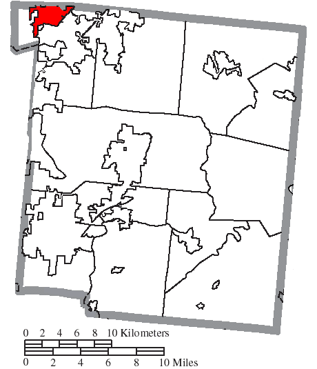 Map of the municipal and township boundaries of Warren County, Ohio, United States, as of the 2000 census, with the location of the village of Carlisle highlighted. Township borders are shown only in unincorporated areas in order to differentiate incorporated and unincorporated areas more clearly.